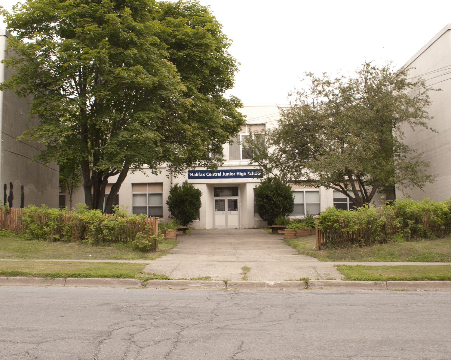 Halifax Central Junior High